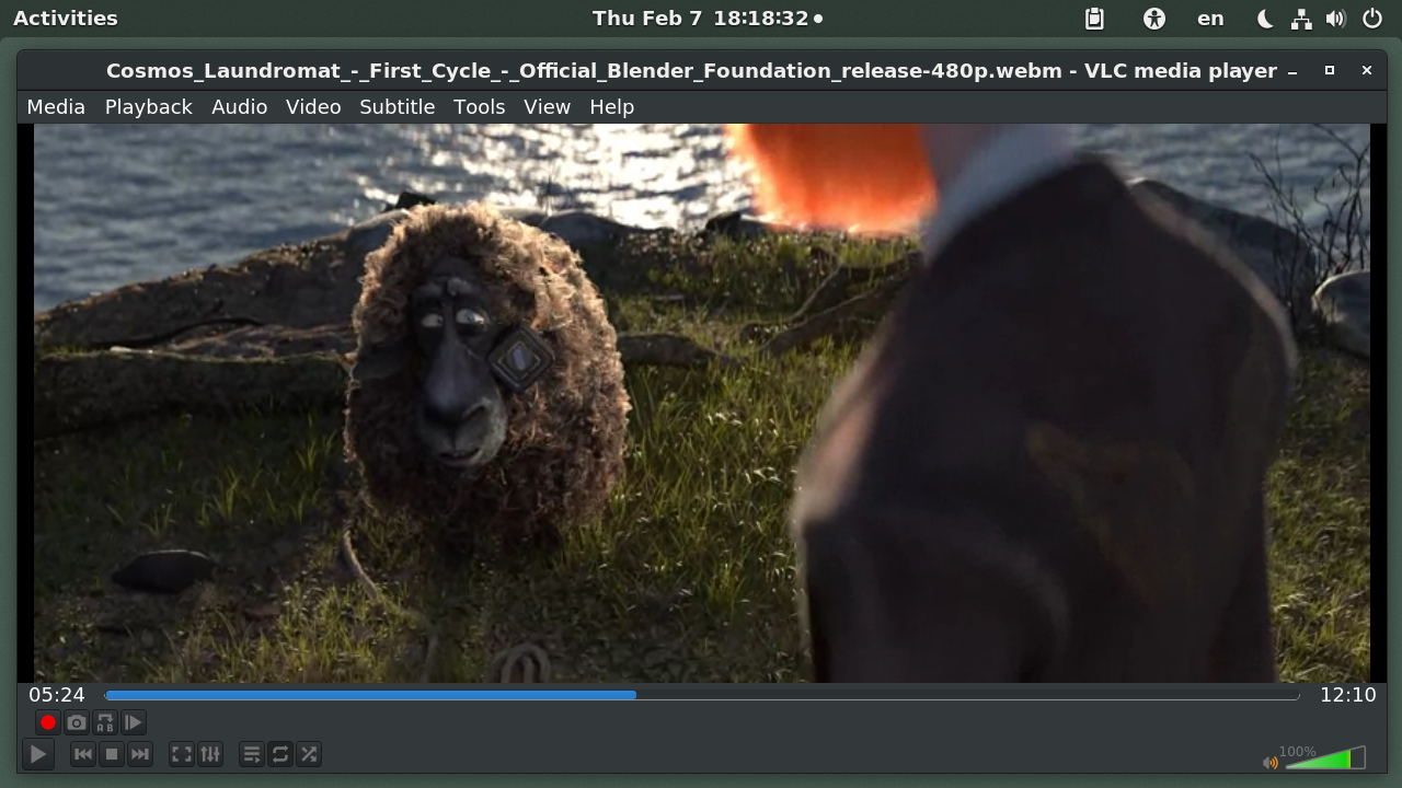 VLC on GNOME 3 playing Cosmos Laundromat